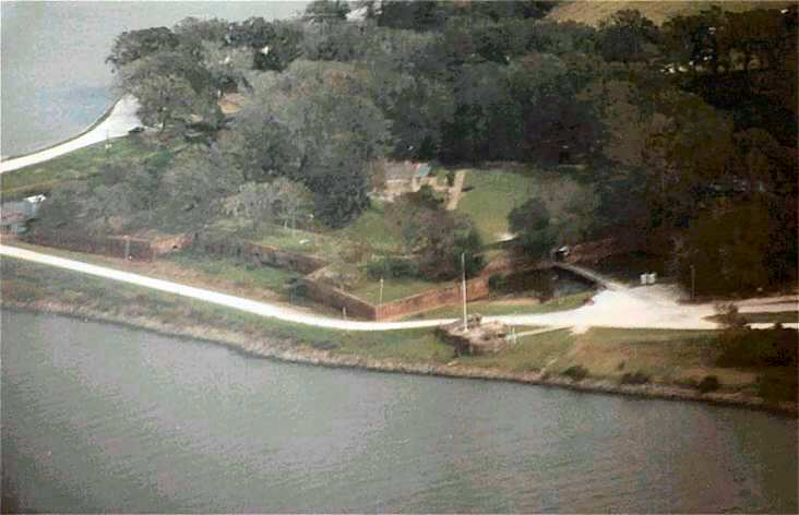 This is an aerial photo of Fort Jackson in Louisiana, on the Mississippi River